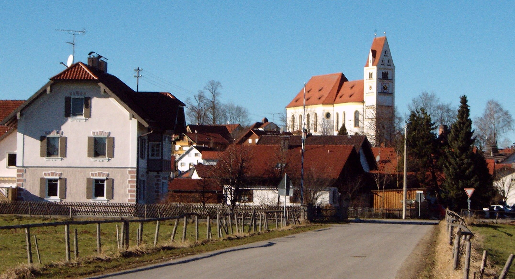 view of Denklingen, District of Landsberg am Lech, Bavaria, Germany with church St. Michael